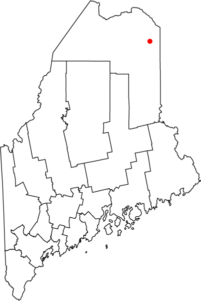 Map of the state of Maine with County Outlines, highlighting the city of Caribou.